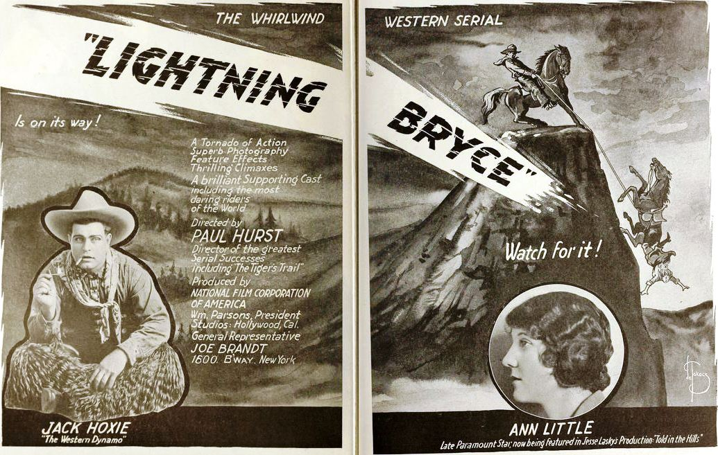 Ad for the American western film serial Lightning Bryce (1919) with Jack Hoxie and Ann Little, pages 1550 and 1551 of the August 23, 1919 Motion Picture News.